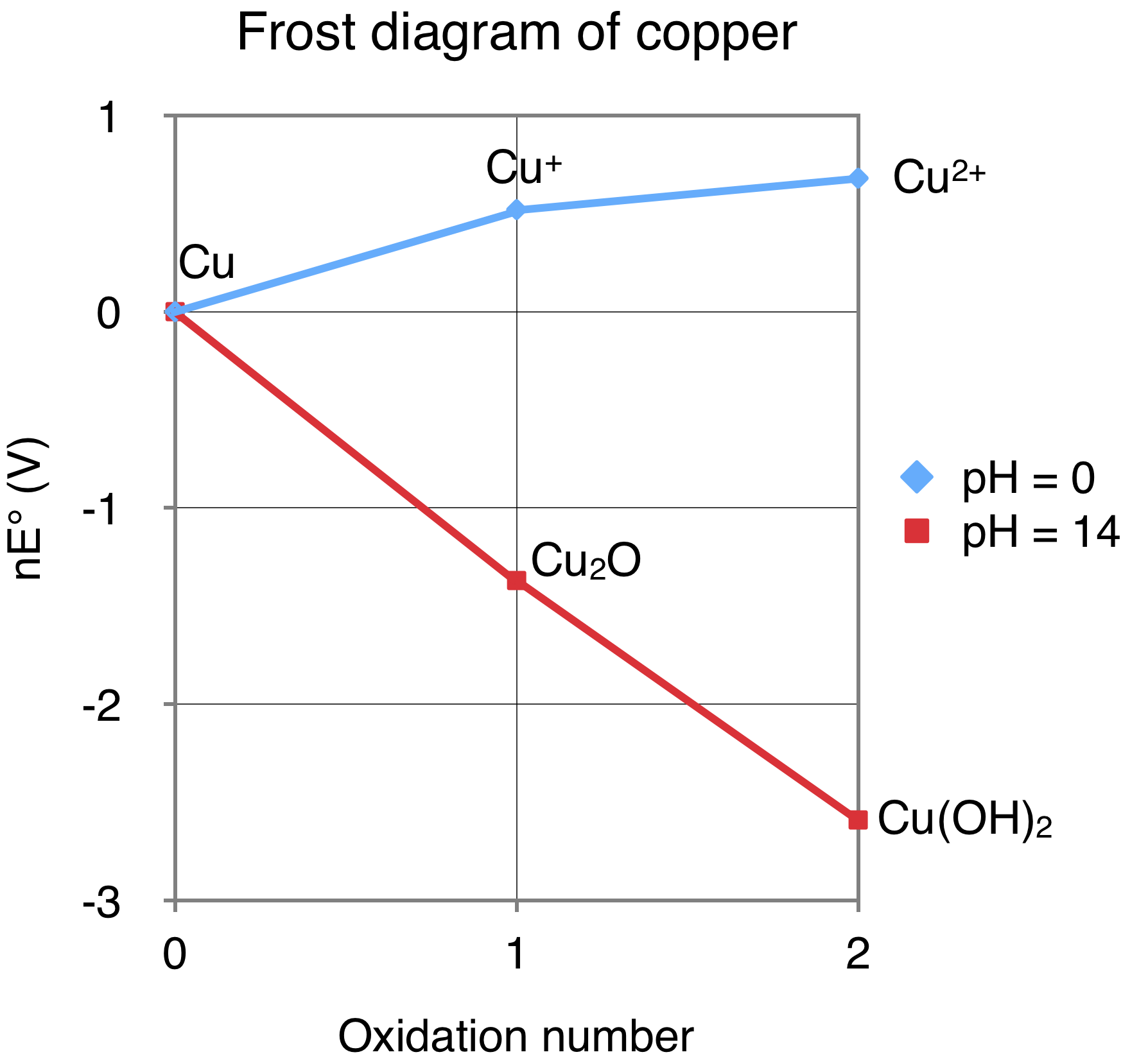 Frost diagram for copper. Data from Shriver & Atkins' Inorganic Chemistry, 5th Edition, 2010